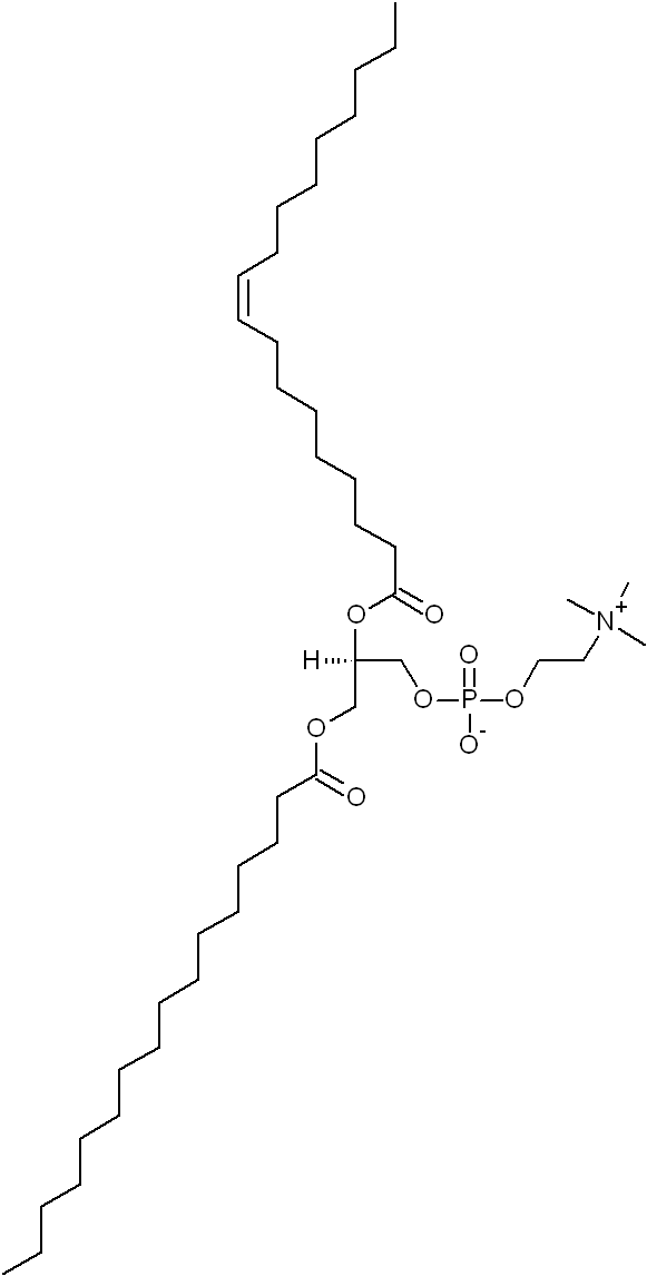 Structural formula of 1-Palmitoyl-2-oleoyl-sn-glycero-3-phosphocholine (POCP)